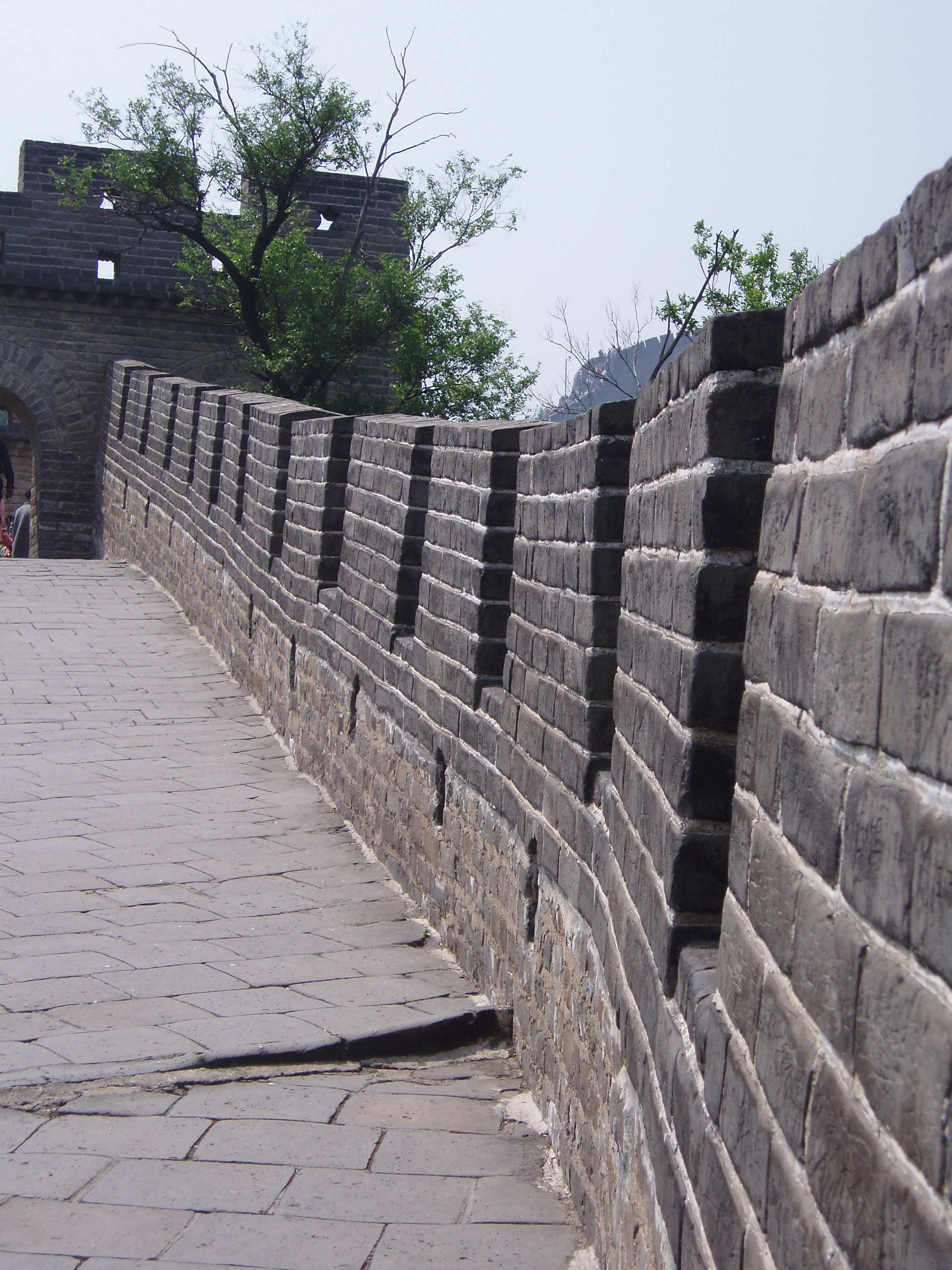 The section of Great Wall in Badaling, near Beijing